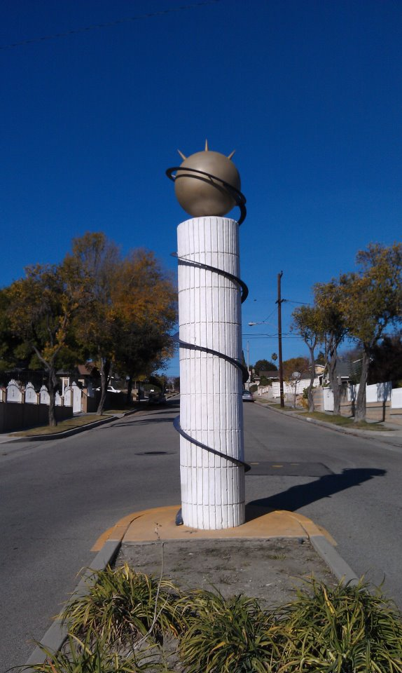 The "Pillar of Balzac", also commonly referred to as "Le Pilier de Balzac" — a sculptural monument by Jean Arp in the San Gabriel Valley of Southern California. It is located near the intersection of Valley Boulevard and Morganfield Avenue in the city of West Covina, in eastern Los Angeles County, California. The piece was commissioned by the descendants of French novelist and playwright Honoré de Balzac, to memorialize a lengthy relationship between the writer and William Workman, one of the 19th-century American pioneers in the San Gabriel Valley and Southern California. The "Pillar of Balzac" monument was designed and created by renowned French Dadaist artist Jean Arp in 1918.